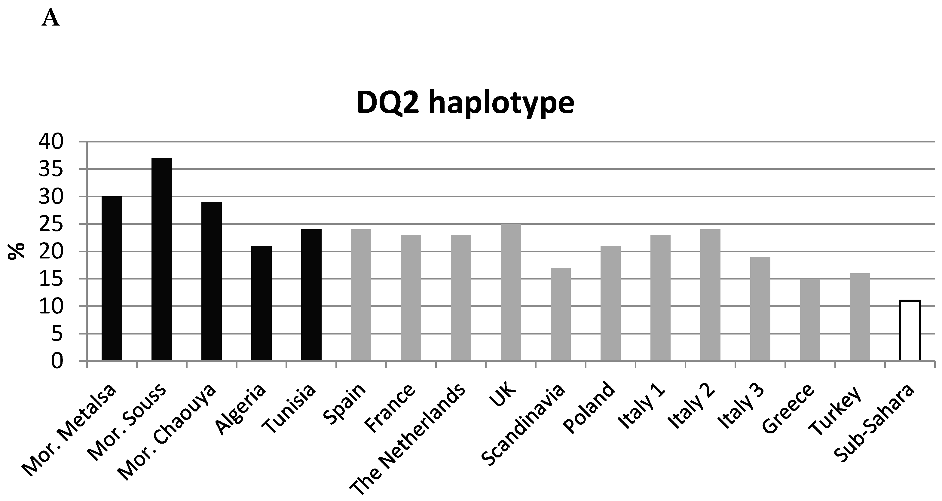 Allertic frequencies of DQ2